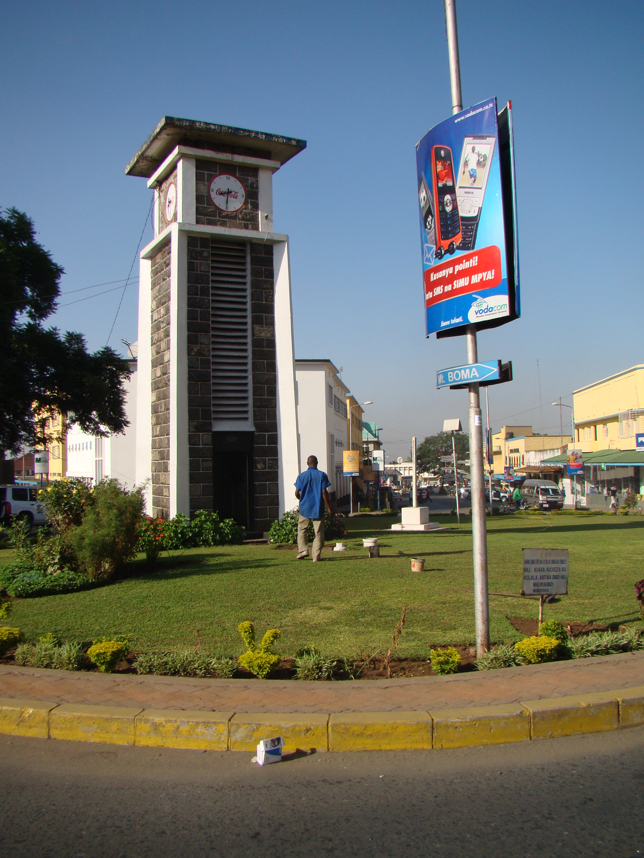 Northeast Tanzania, Arusha. Clock Tower, Arusha.